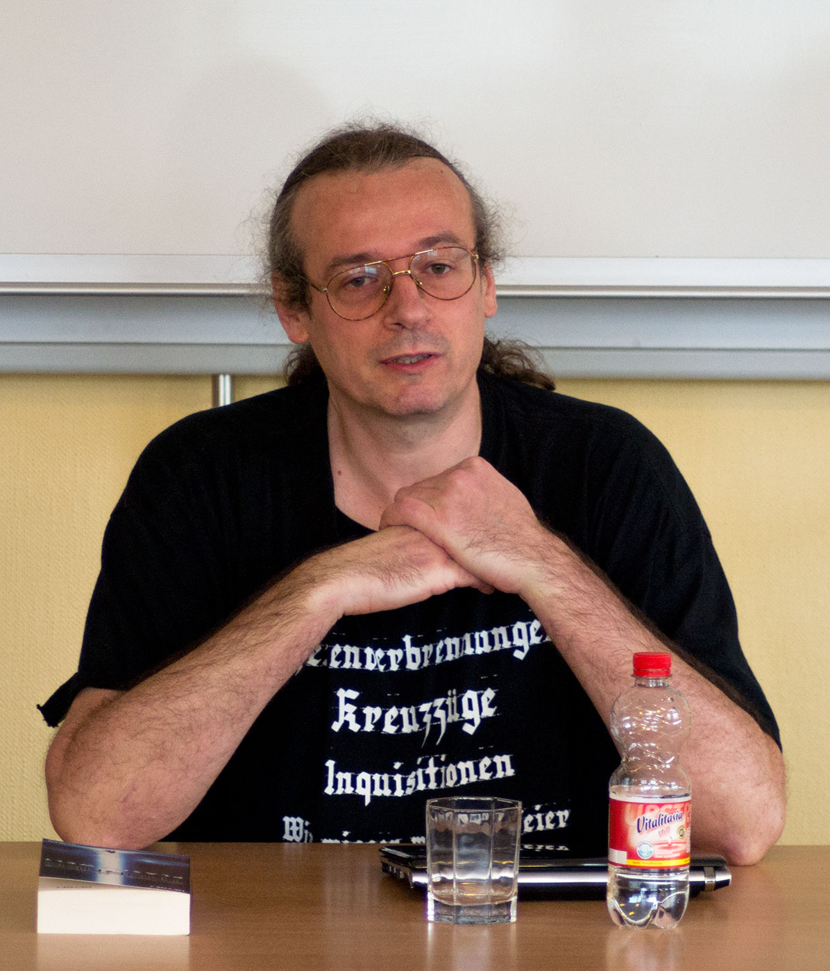 Austrian science fiction writer Michael Marcus Thurner at Dort.Con, Dortmund, Germany, in March 2013